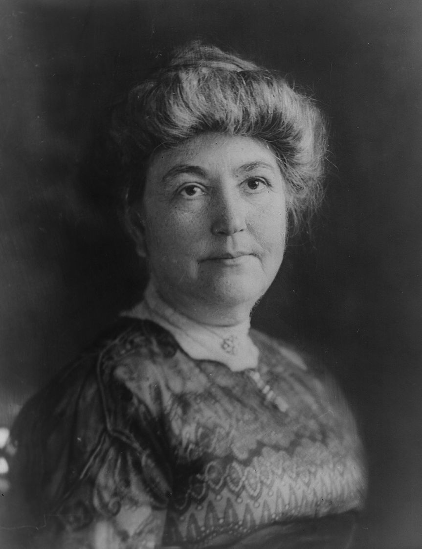 Ellen Louise Wilson, slightly cropped & resized